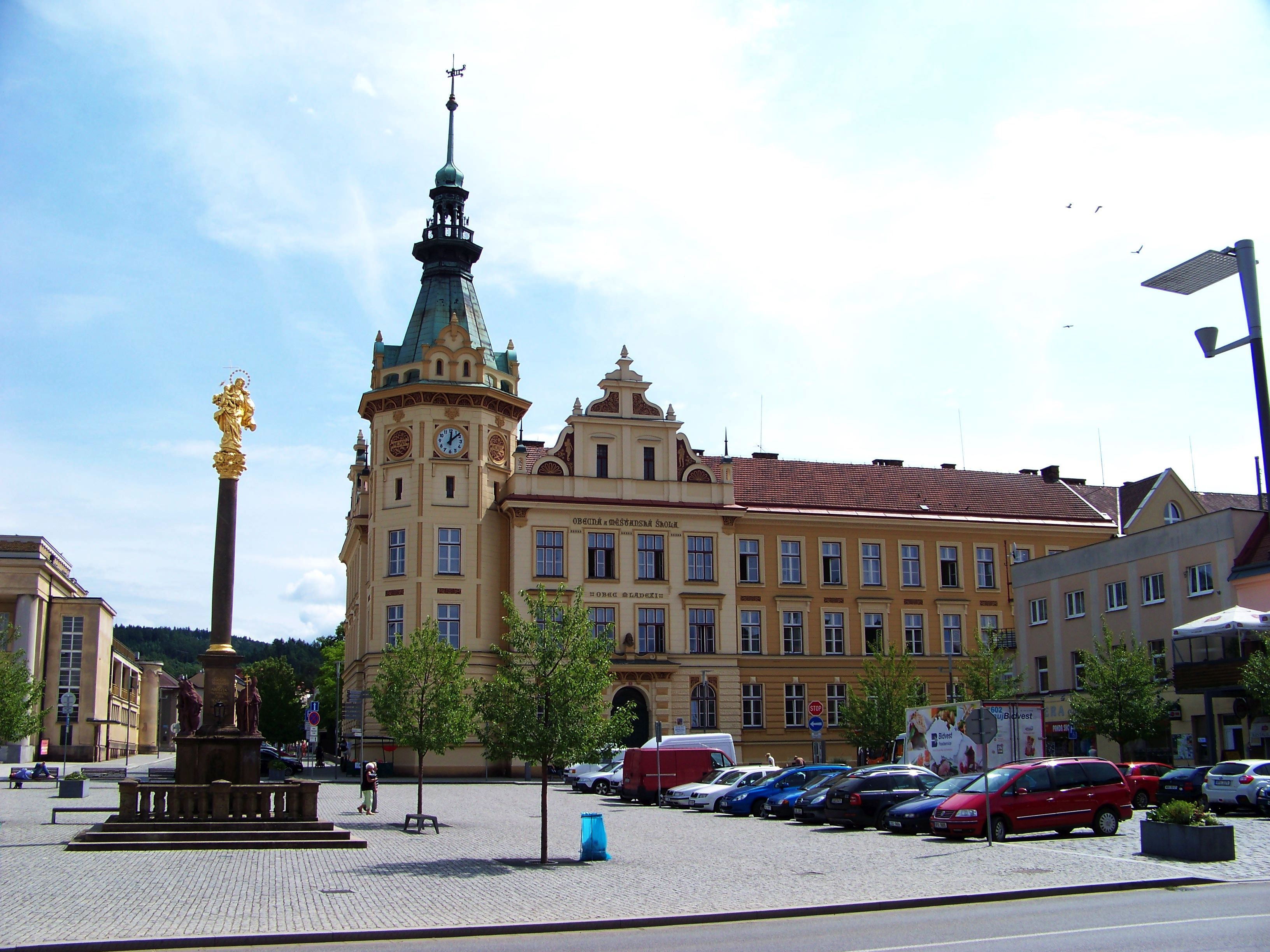 Hronov, Náchod District, Hradec Králové Region, Czech Republic. Náměstí Čs. armády, Maria column and a school. - Google Maps - Google Earth